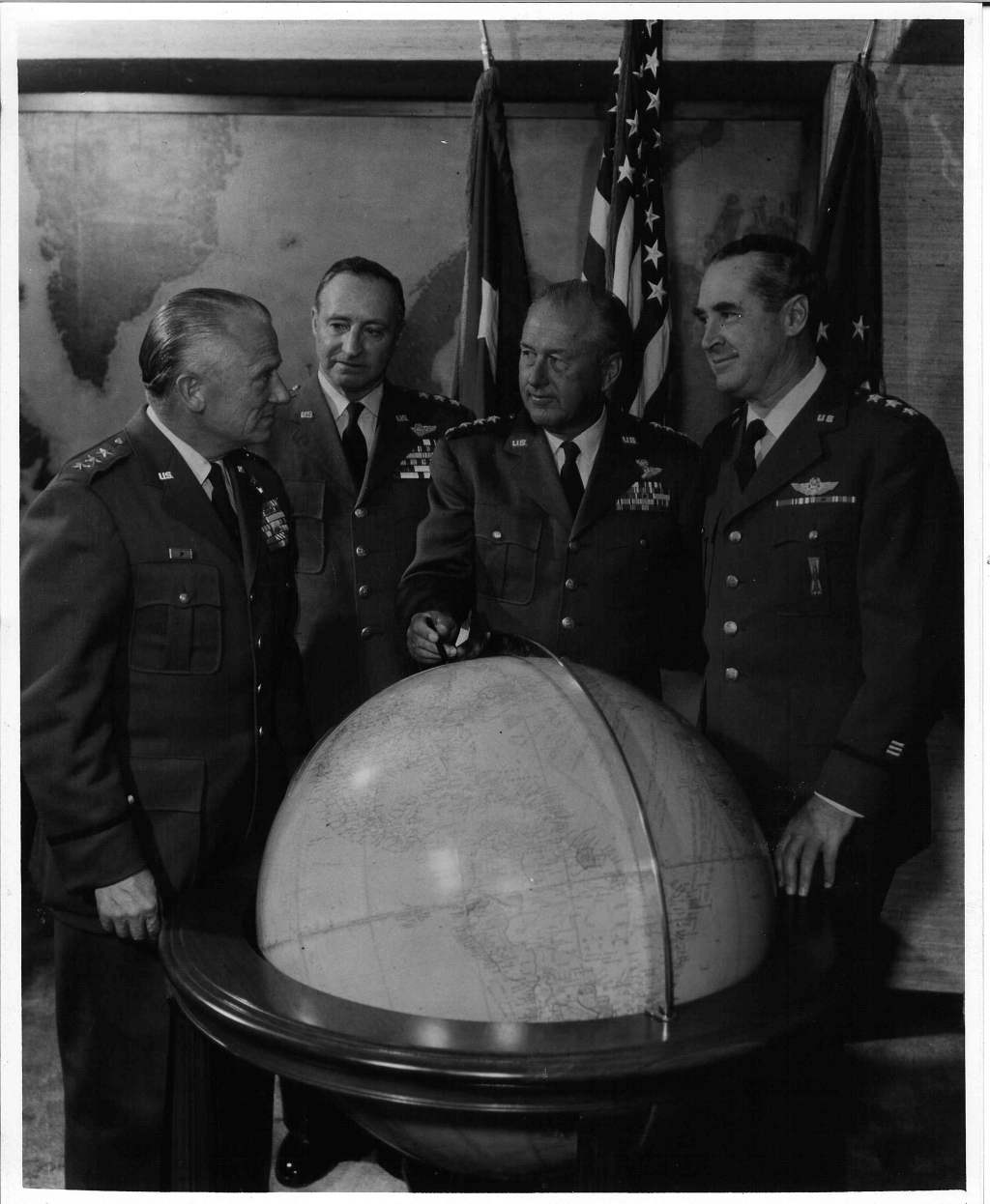 Conferring at Headquarters, Strategic Air Command at Offutt Air Force Base, Nebraska, are (l to r) Lt. Gen. Archie J. Old, Commander, 15th Air Force; Lt. Gen. J.P. McConnell, Commander, 2nd Air Force and later Air Force Chief of Staff; General Power; and Lt. Gen. Walter C. Sweeney, Jr., Commander 8th Air Force.